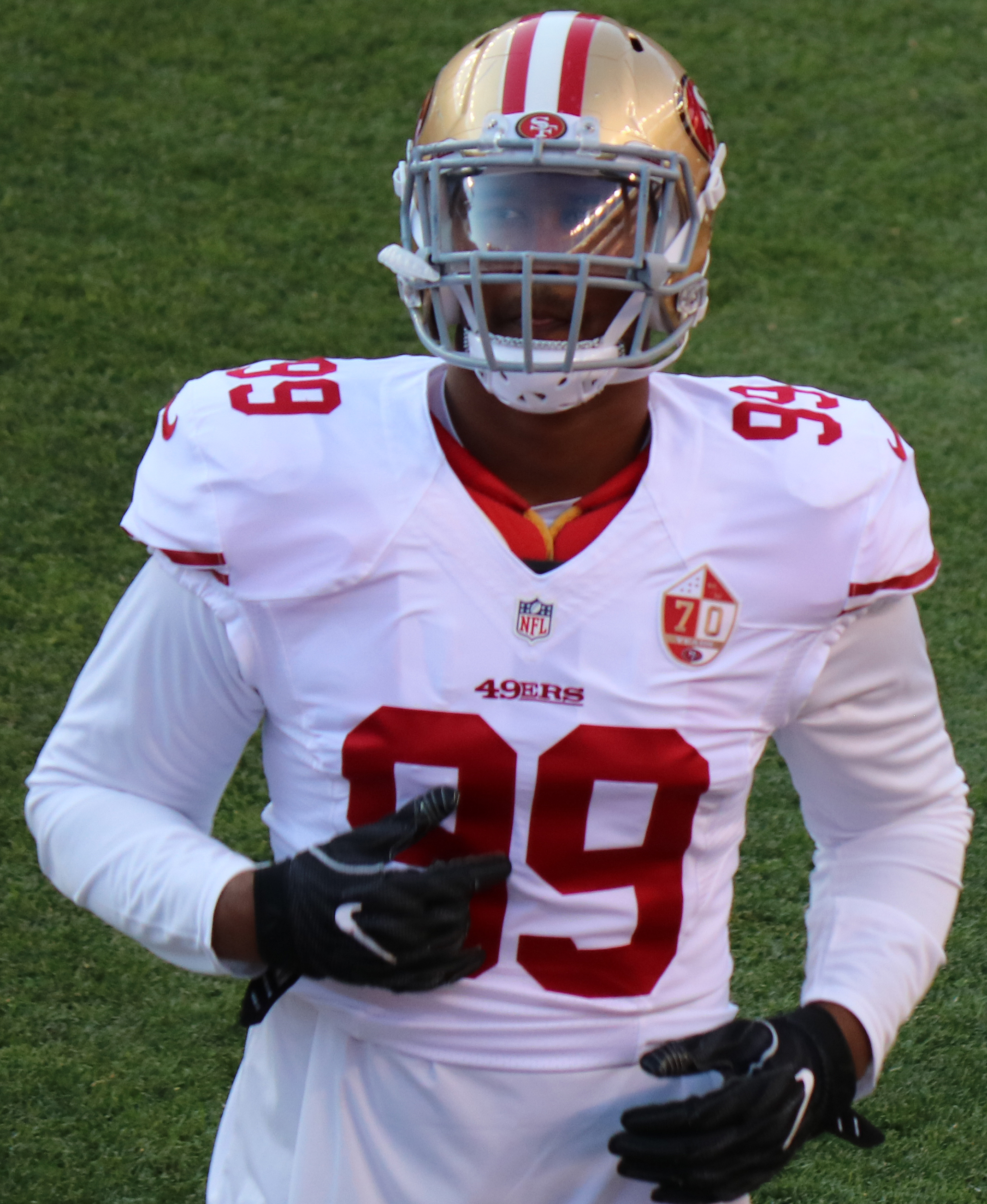 DeForest Buckner, a player on the National Football League.